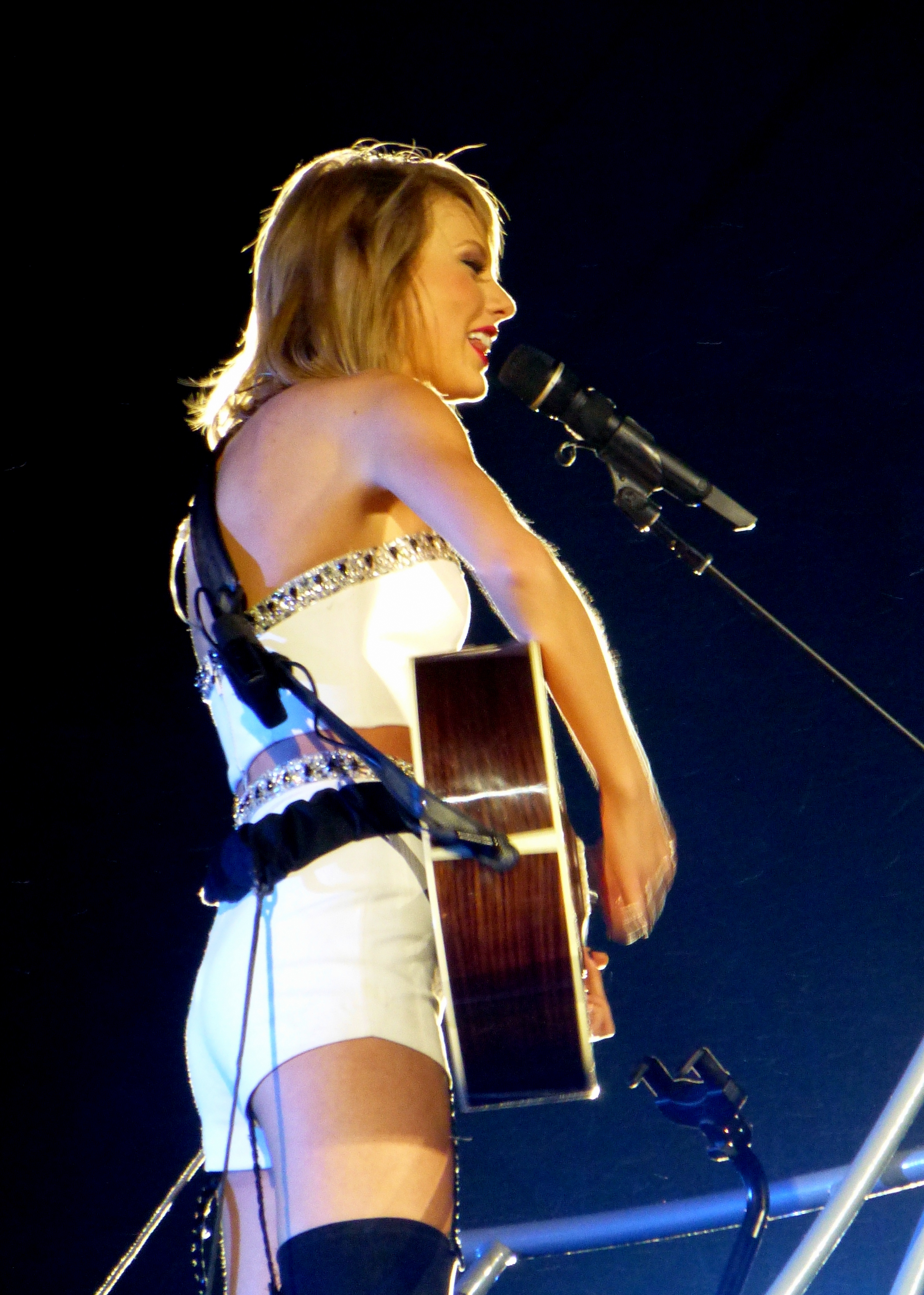 Taylor Swift 1989 Tour at Ford Field in Detroit, 5/30/15